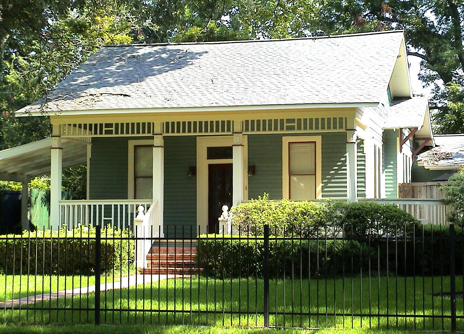 Bungalow in Houston, Texas.